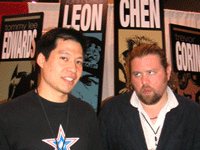 Comic book creators Sean Chen and Tommy Lee Edwards at the Canadian National Comic Book Convention (September, 2006).